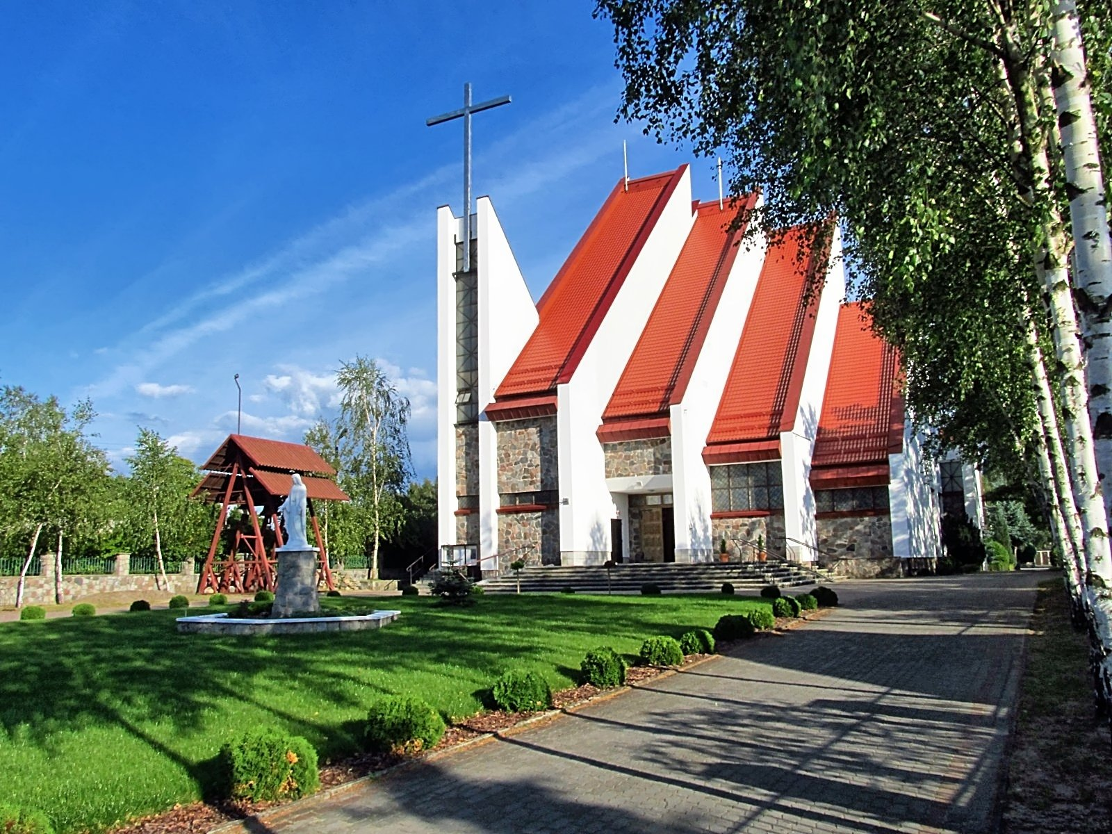 Our Lady of Częstochowa church in Czarna Woda, Poland